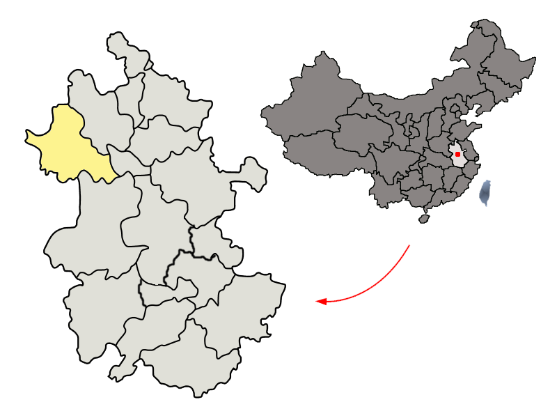 Location of Fuyang Prefecture (yellow) within Anhui Province of China Map drawn in december 2007 using various sources, mainly : Anhui Province administrative regions GIS data: 1:1M, County level, 1990 Anhui Counties map from